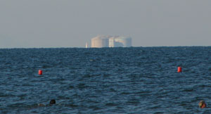 Picture taken at Playa de la Malvarrosa, Valencia (Spain)